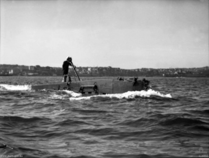 The Royal Navy midget submarine HMS XE4 Exciter, cruising round the Sydney Harbour, 6 September 1945.